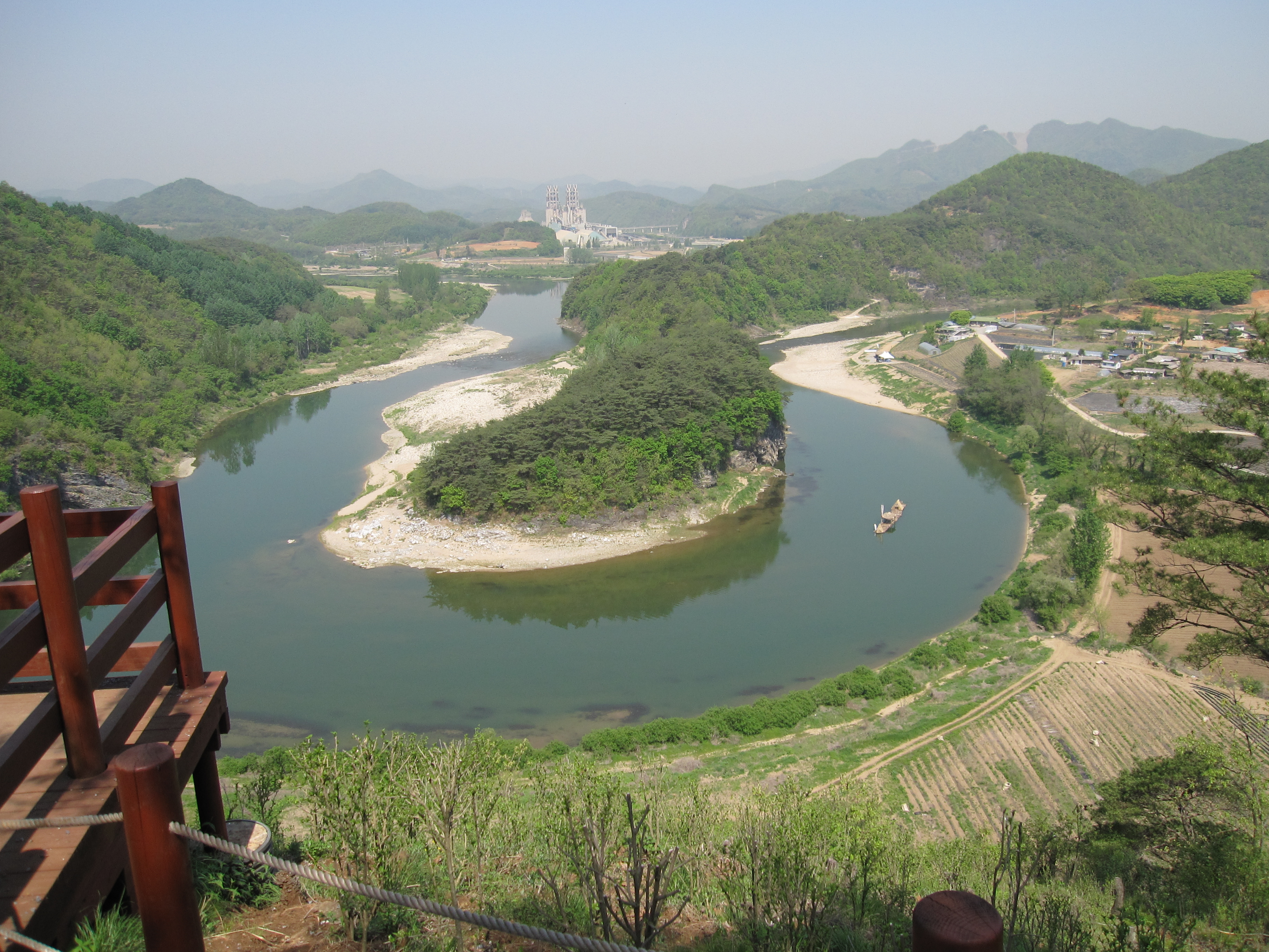 Yeongwol-gun in scenic Gangwon Province is grabbing local and foreign tourists’ attention with traditional rafting. Hop on a traditional wooden raft and enjoy the beautiful view of Hanbando-myeon, which looks very similar to the map of Korea. Hanbando-myeon has been designated a traditional theme village by the Rural Development Administration and is providing a variety of hands-on experiences: crossing the river by hand-pulled cable ferry, exploring, sending postcards to Dokdo and so on.